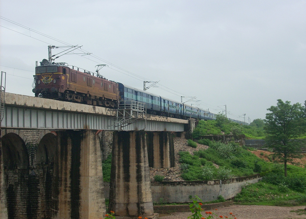 Patna - Secundarabad Express Near Ghoradongri